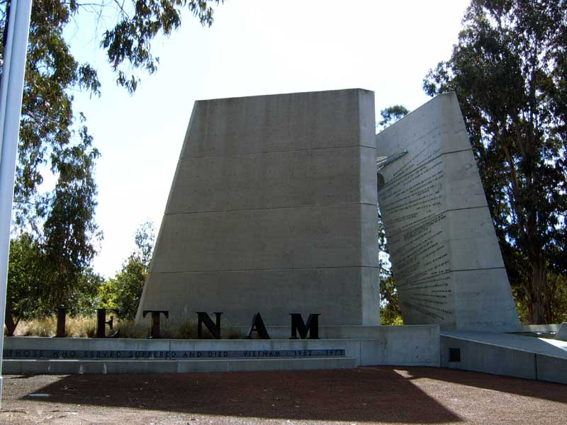 Vietnam War Memorial on ANZAC Parade, the ceremonial and memorial avenue of Canberra, the capital city of Australia.